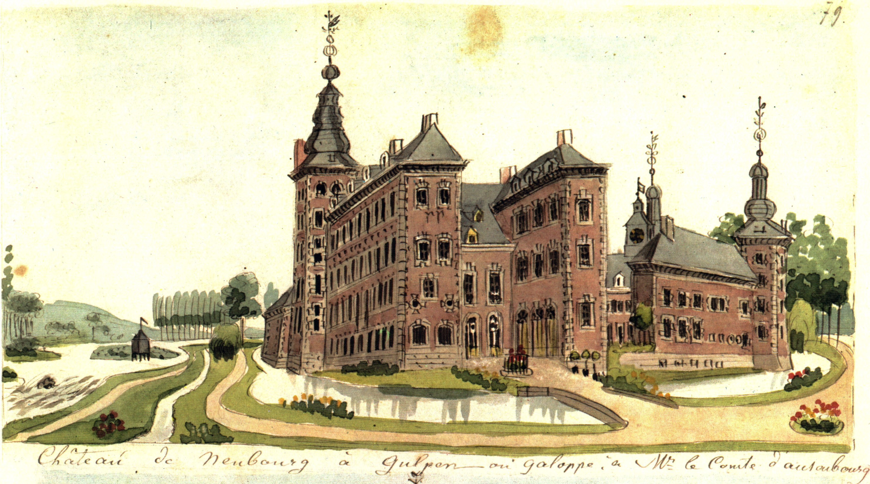 View of Neubourg Castle in Gulpen, Limburg, the Netherlands. Drawing by Philippus van Gulpen (c 1840-60)